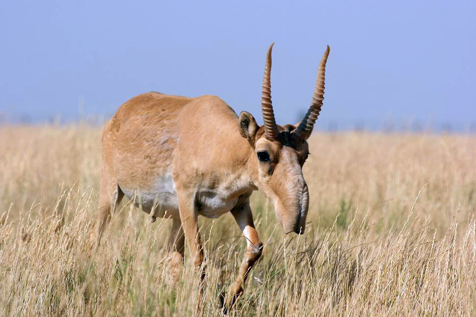 Image of a saga, Saiga tartarica